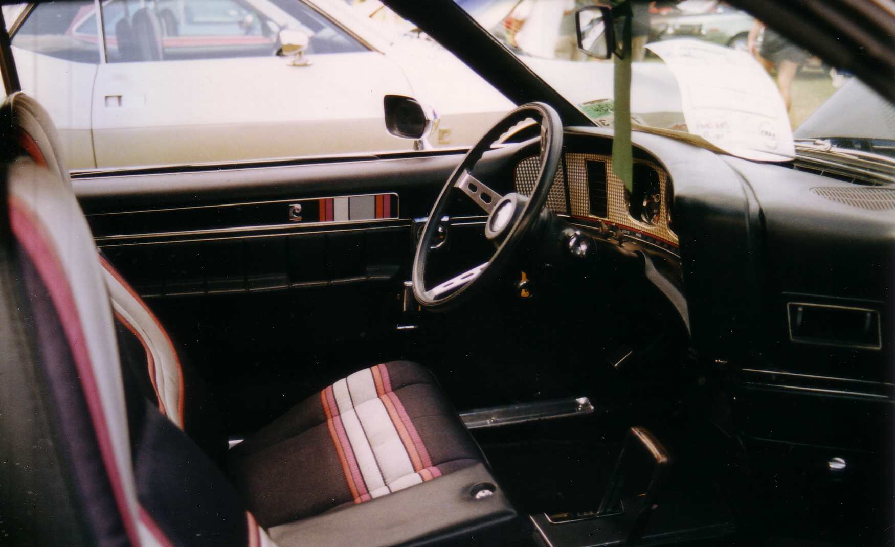 Interior of a 1972 American Motors Corporation (AMC) Javelin "pony car" with the optional Pierre Cardin designed interior